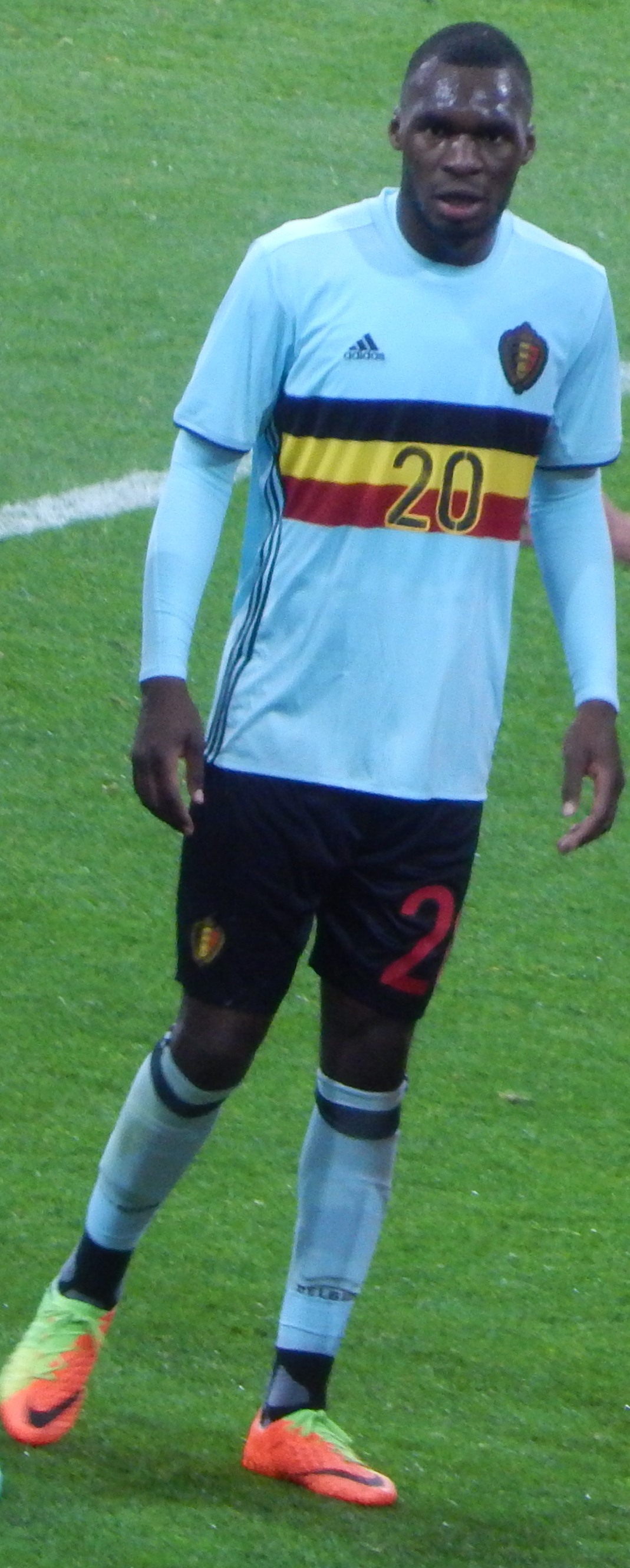 This photo was taken on March 28, 2017 during the exhibition game between Russia and Belgium. That game was held in Adler (City of Sochi) at the Fisht stadium.